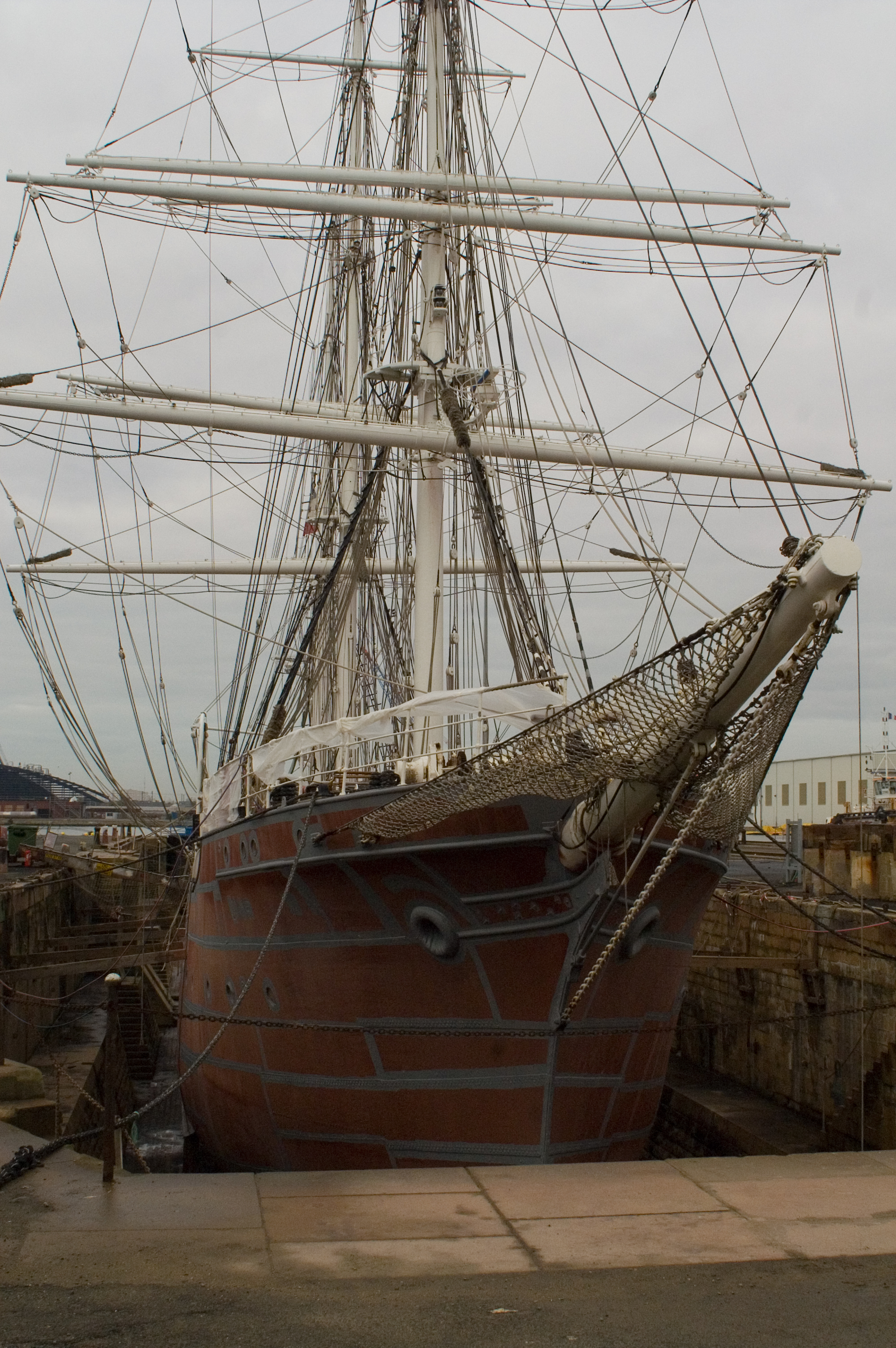 The Belem in a drydock in Saint-Nazaire